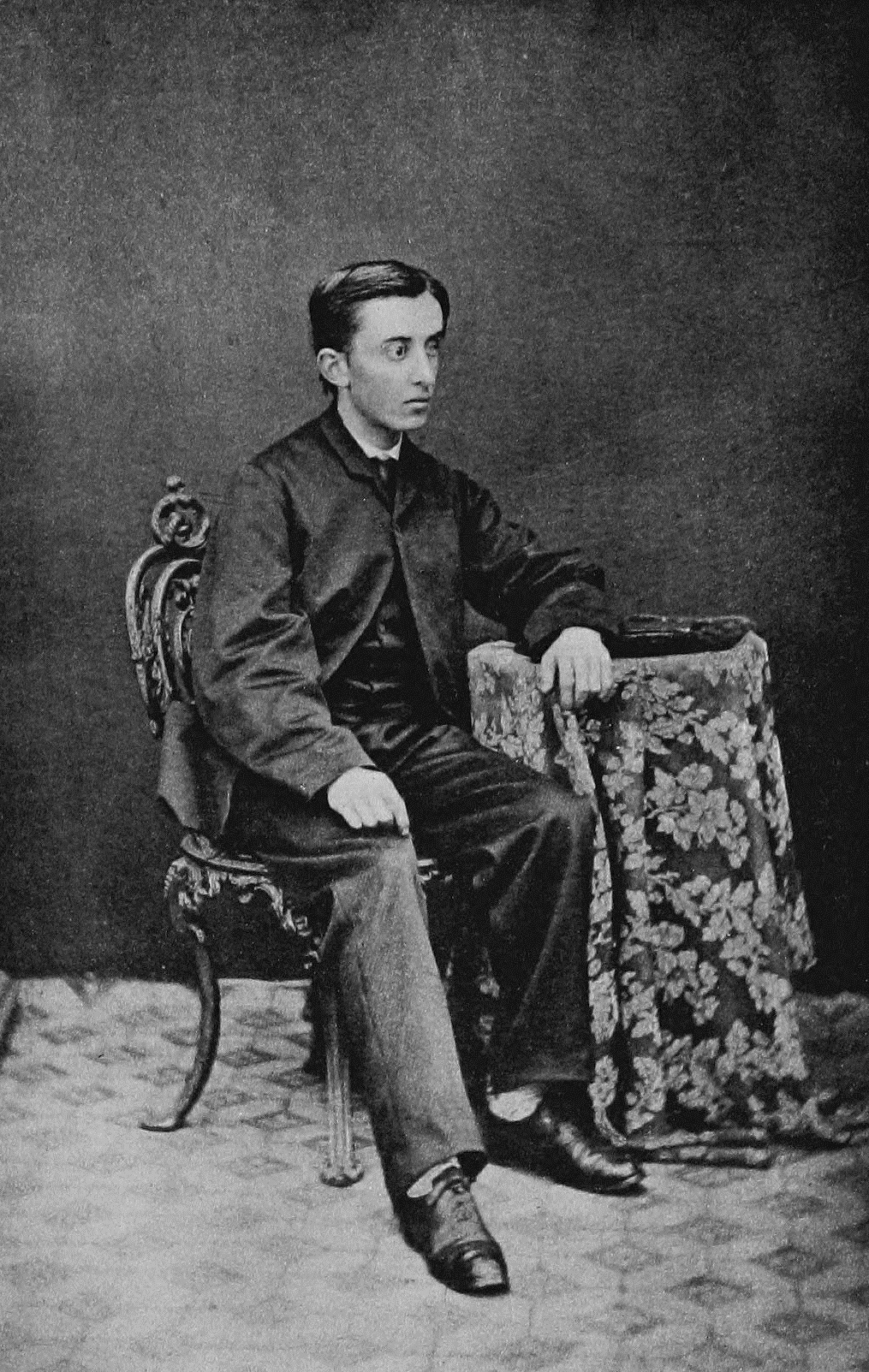 Photograph of Lafcadio Hearn, circa 1866 (after his eye injury), from 'The Japanese Letters of Lafcadio Hearn' -- a book by Elizabeth Bisland, published in 1910, page xx